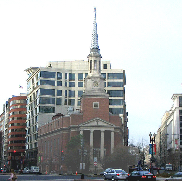 New York Avenue Presbyterian Church in Washington, D.C.